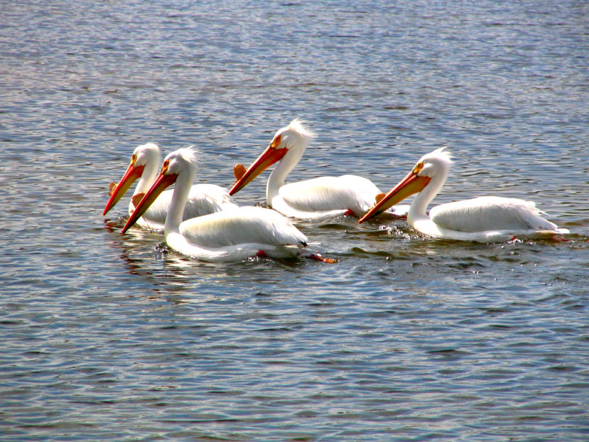 Bruce Sizer, White Pelicans fishing in Sawhill Ponds, Boulder, CO